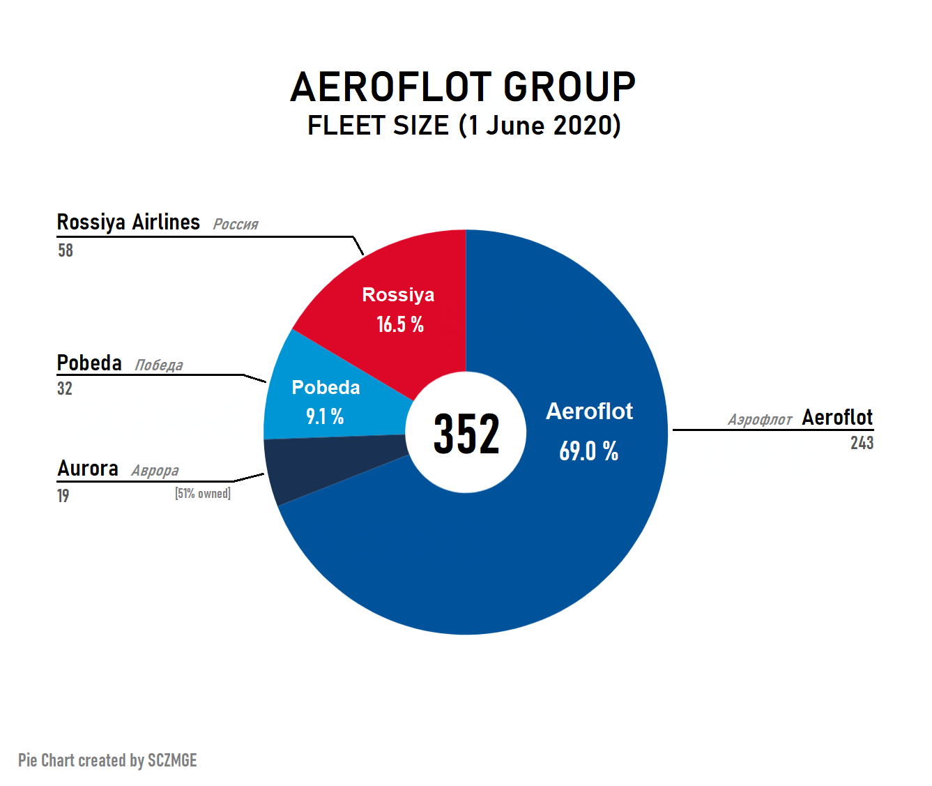 Aeroflot Group fleet size - valid from 1 June 2020. Data retrieved from on 1 June 2020